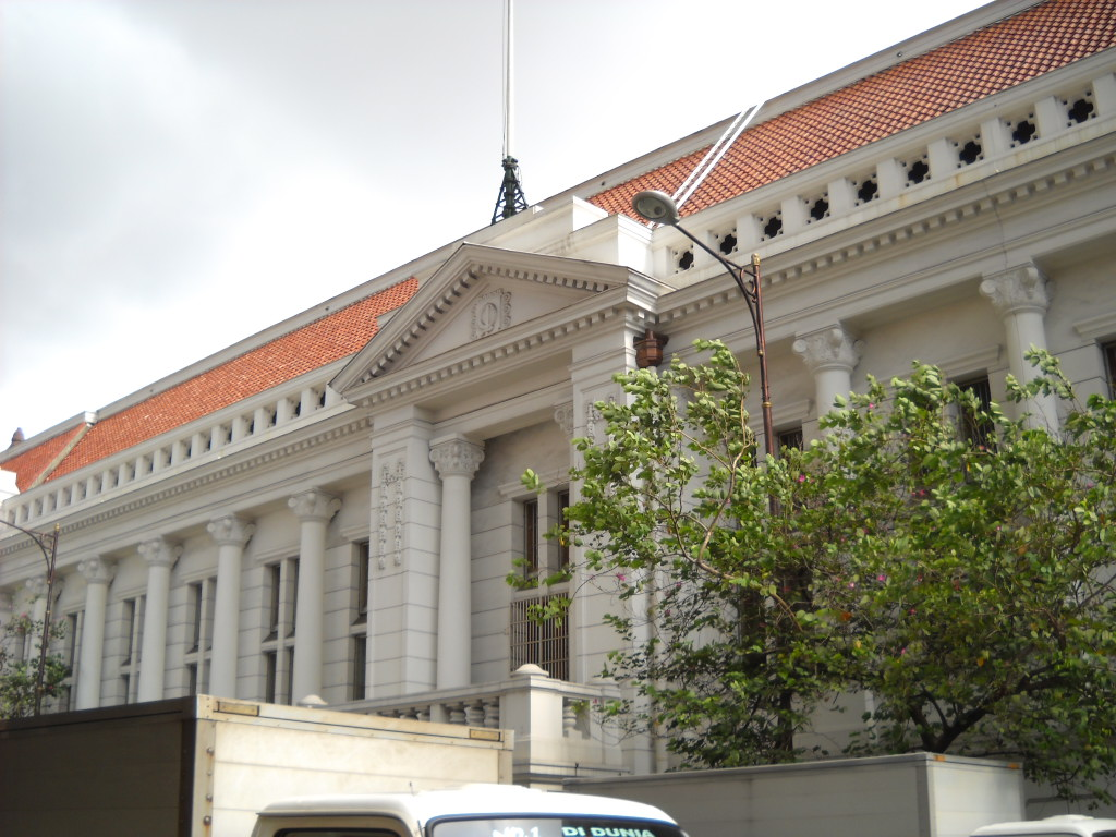 Javasche Bank, Jakarta